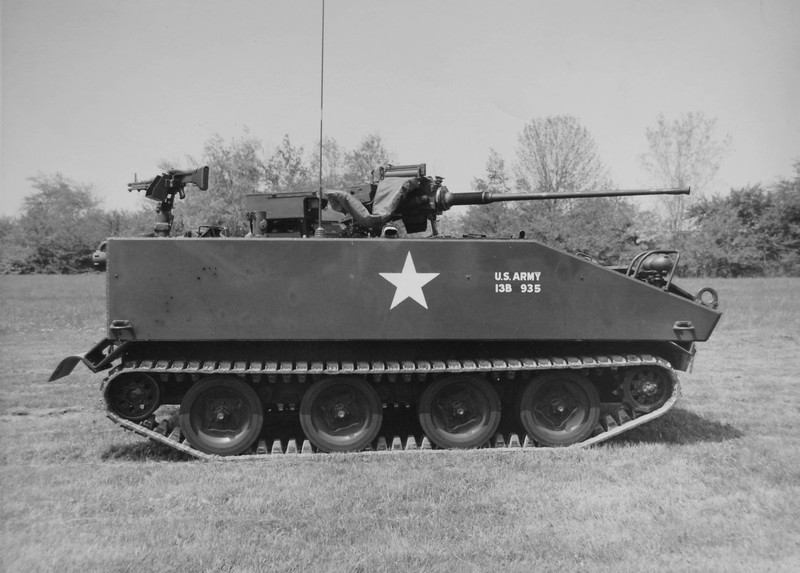 M114A2 Command and Reconnaissance Carrier with M139 20mm cannon.